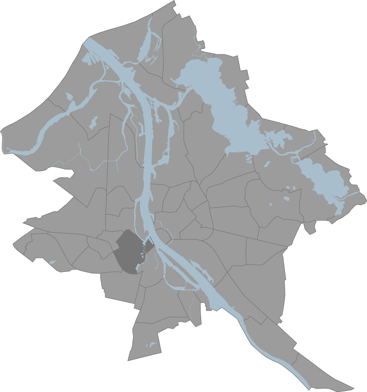 A map of Riga, Latvia with the eponymous commune highlighted